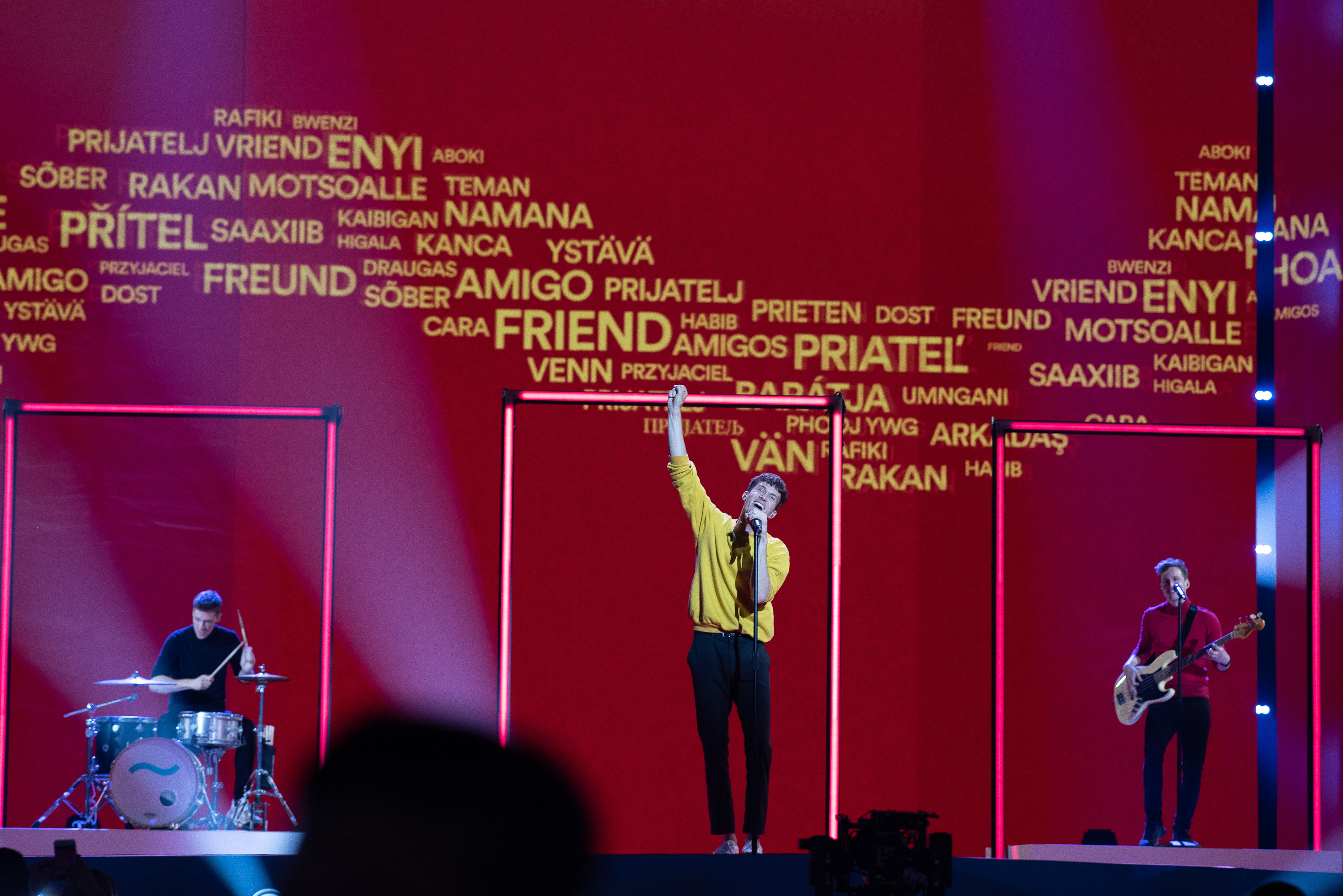 Lake Malawi representing the Czech Republic with the song "Friend of a Friend" during a rehearsal before the grand final of the Eurovision Song Contest 2019 in Tel-Aviv.